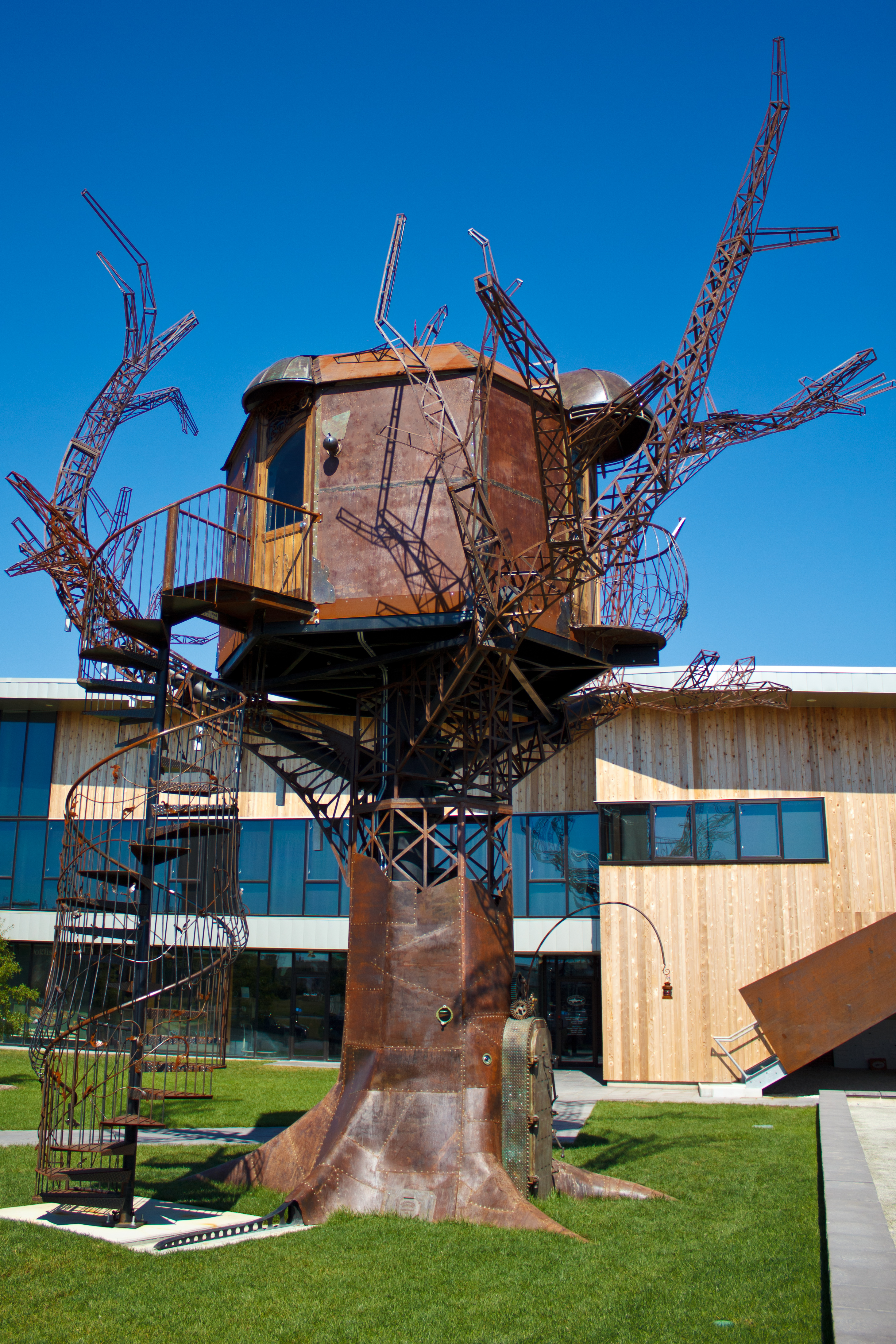 The Dogfish Head tree house is located outside of their brewery in Milton, DE (which is right outside of the Rehoboth Beach area).